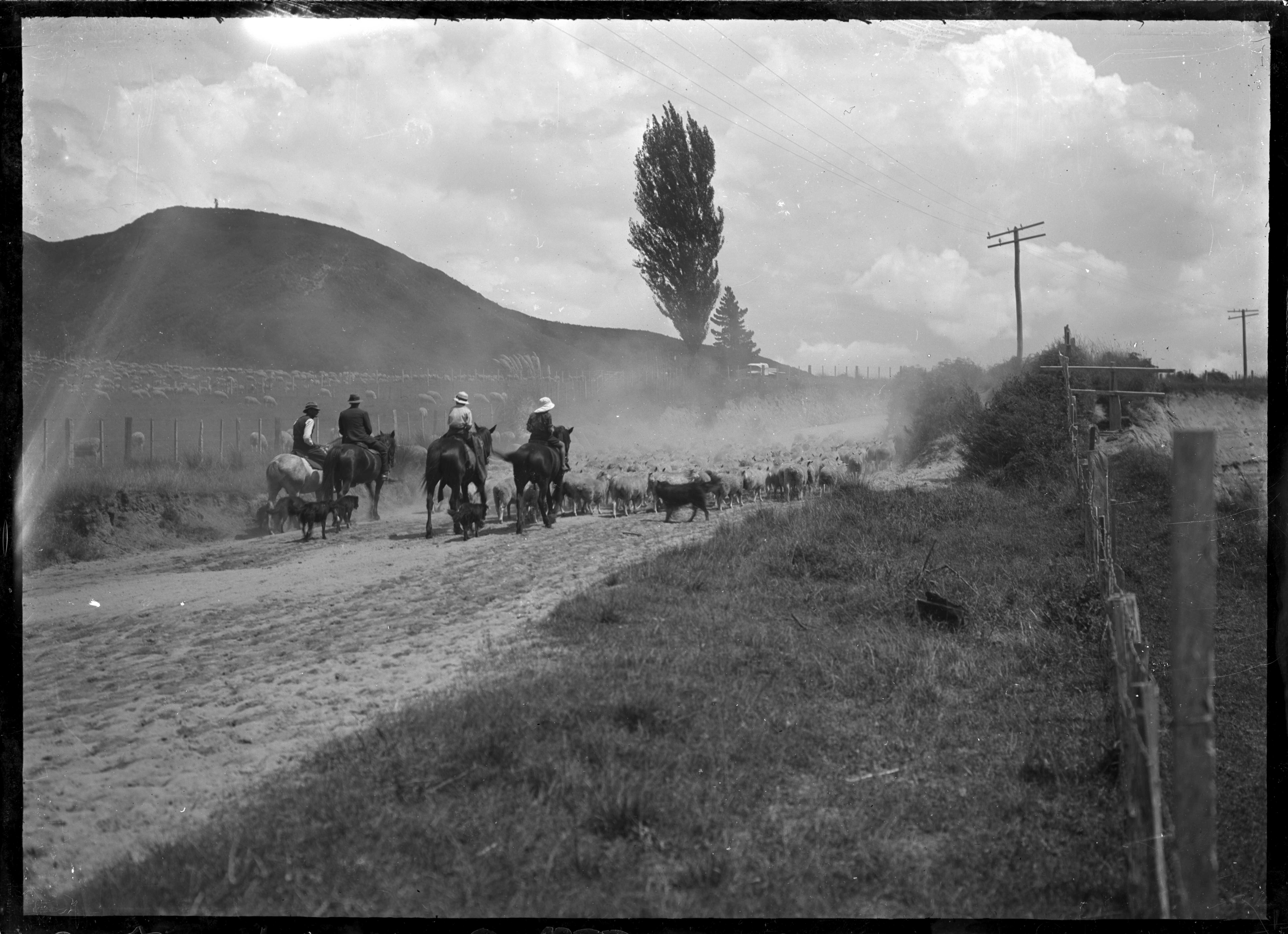 Four men on horseback with their sheepdogs, droving sheep along the road near Awakeri. Photograph taken by Albert Percy Godber, in 1924.